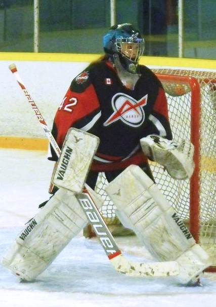 Taken by Devan Mighton during 2013-14 PWHL season.